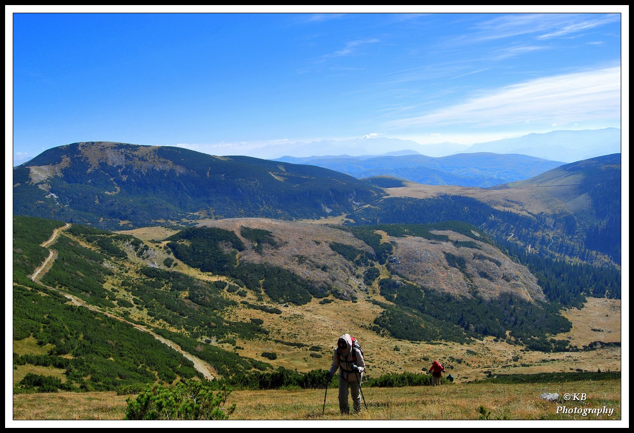 Ločika peak, 2107 meters